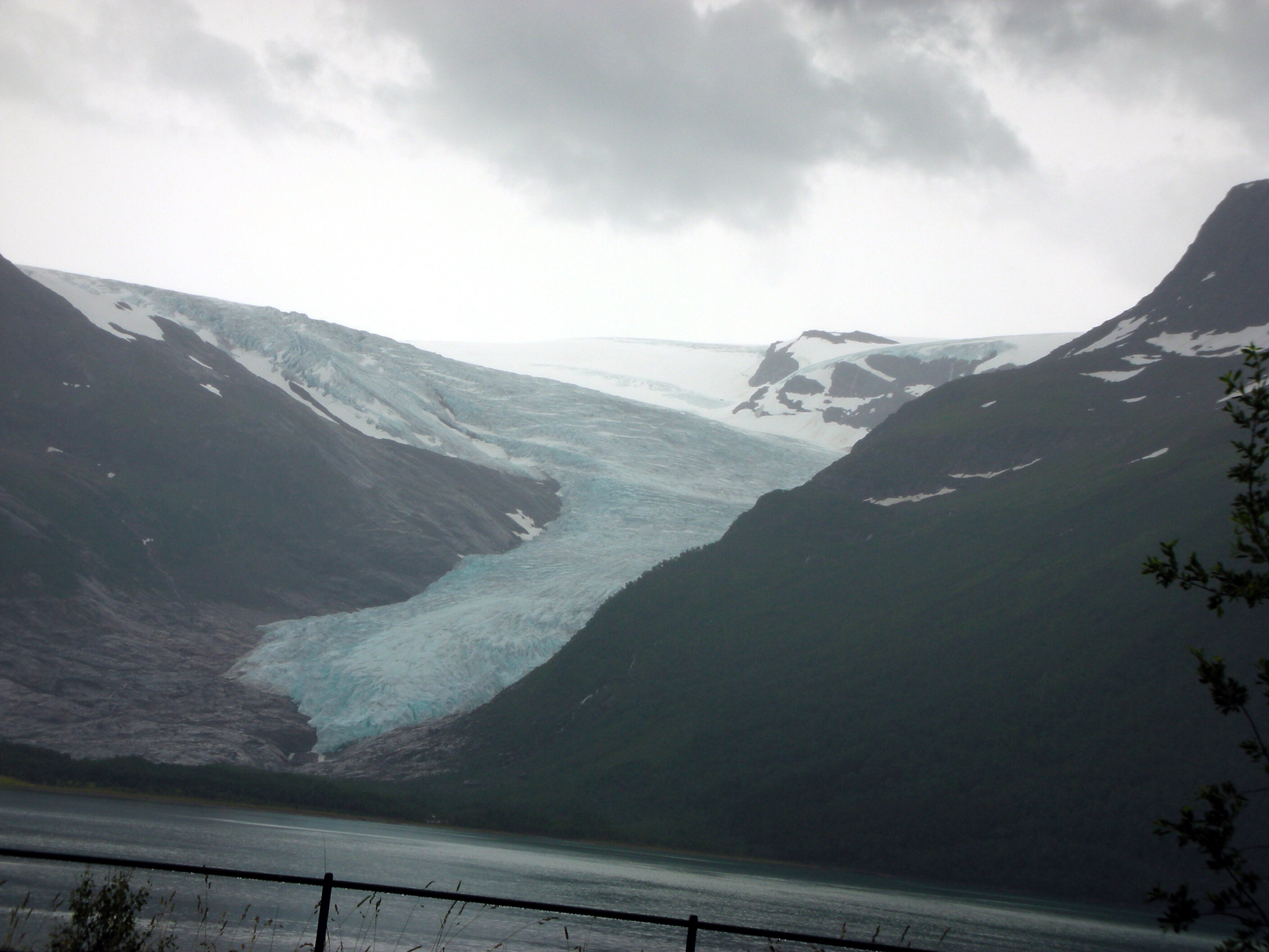 The glacier Engabreen, a part of the glacier Svartisen, Norway. Seen from Braset in north-west.